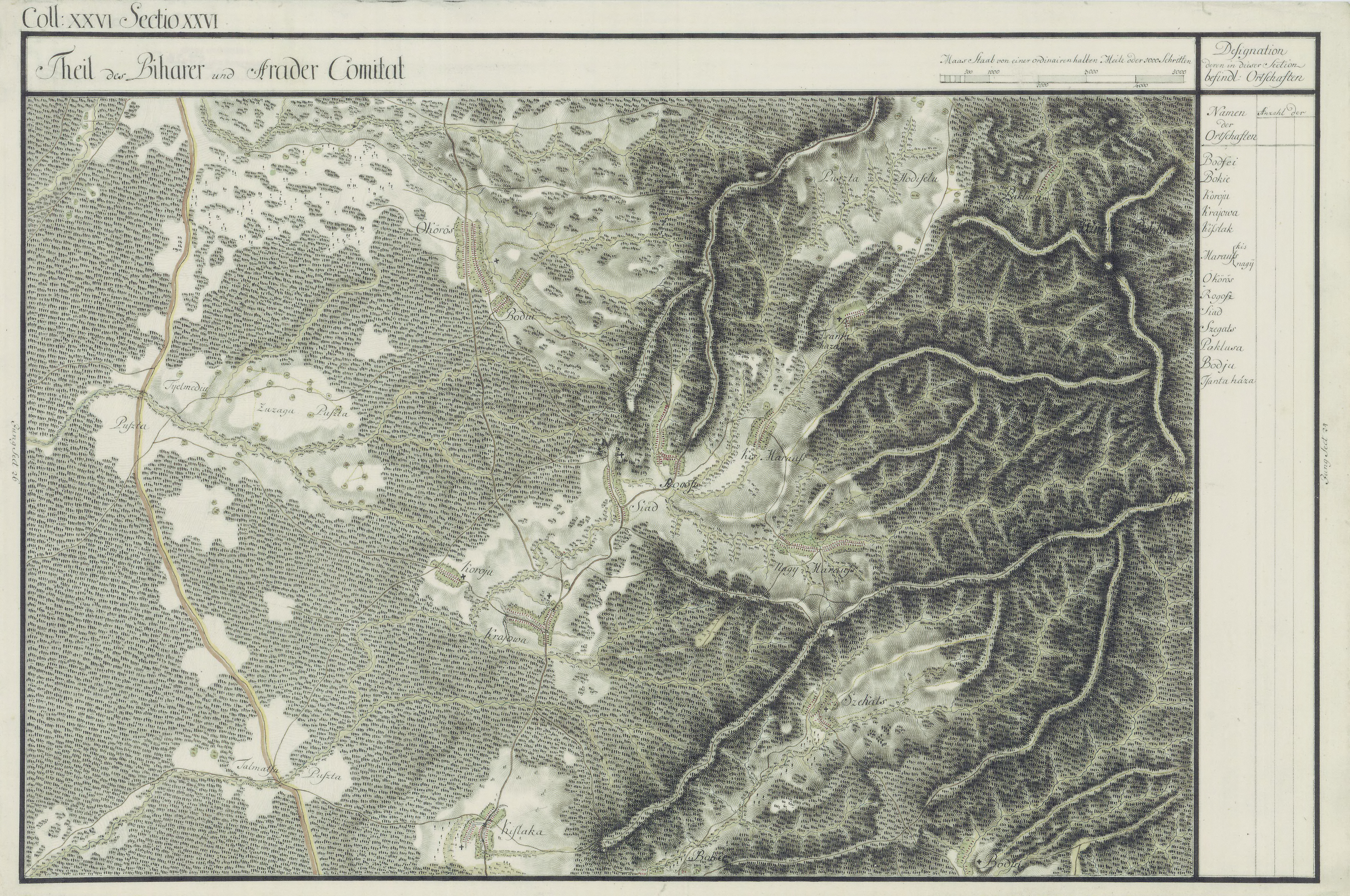 Arad County, 1782-85. Josephinische Landesaufnahme pg.26-26